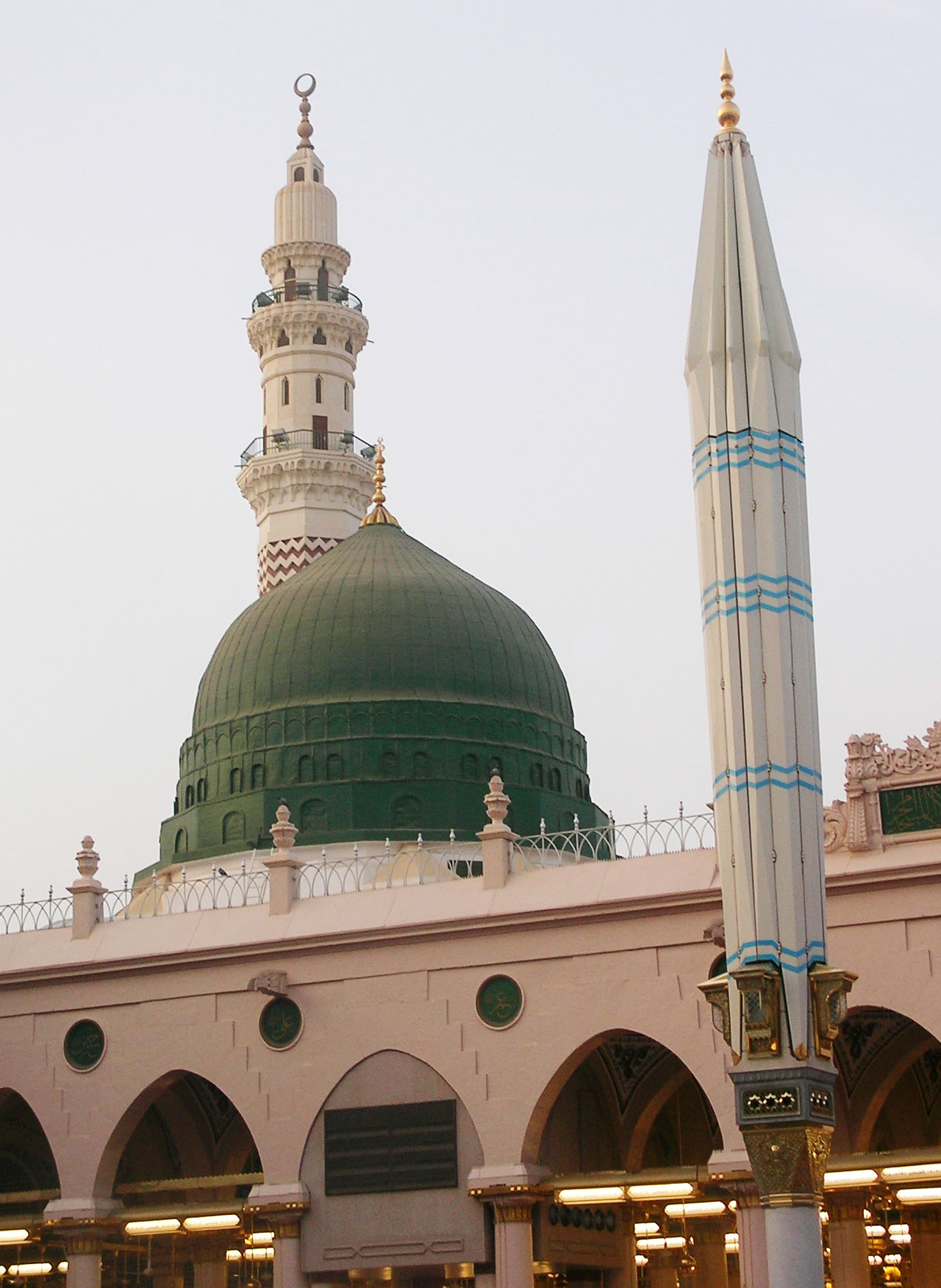 Green Dome of Al-Masjed Al-Nabawi (mosque), Saudi Arabia. Sunshade 'umbrella' in folded down position.